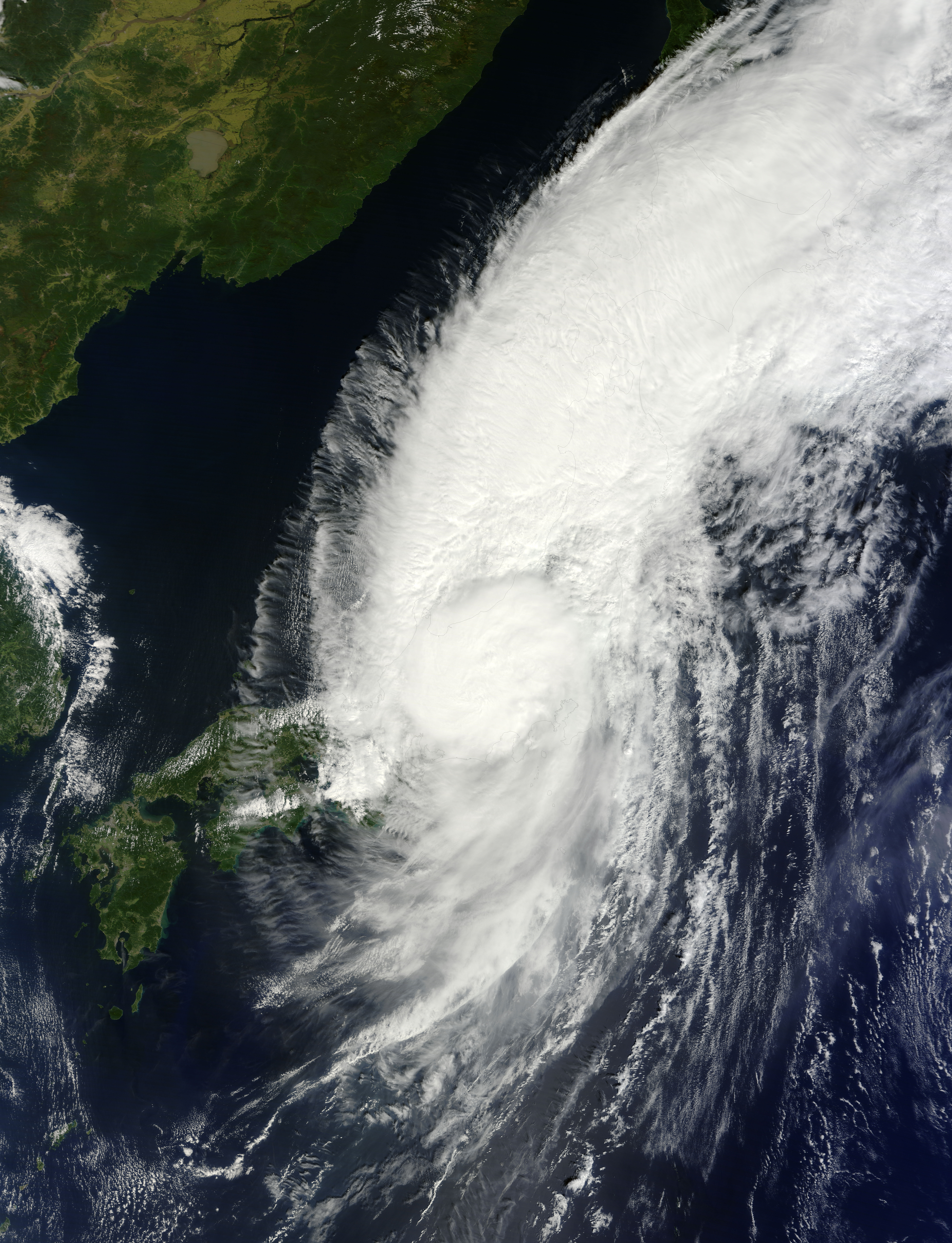 Severe Tropical Storm Man-yi at peak intensity and on landfall over Japan on September 16, 2013. At that time, Man-yi's central pressure was at 975hpa, and was rapidly moving over Japan. Besides Man-Yi, Ash and smoke from the Sakurajima stratovolcano, southern Japan can be seen near the mid-way bottom-left of the image.